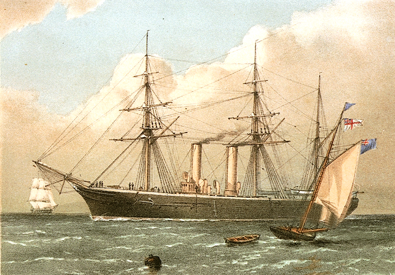 H.M.S. Iris Hand-coloured.